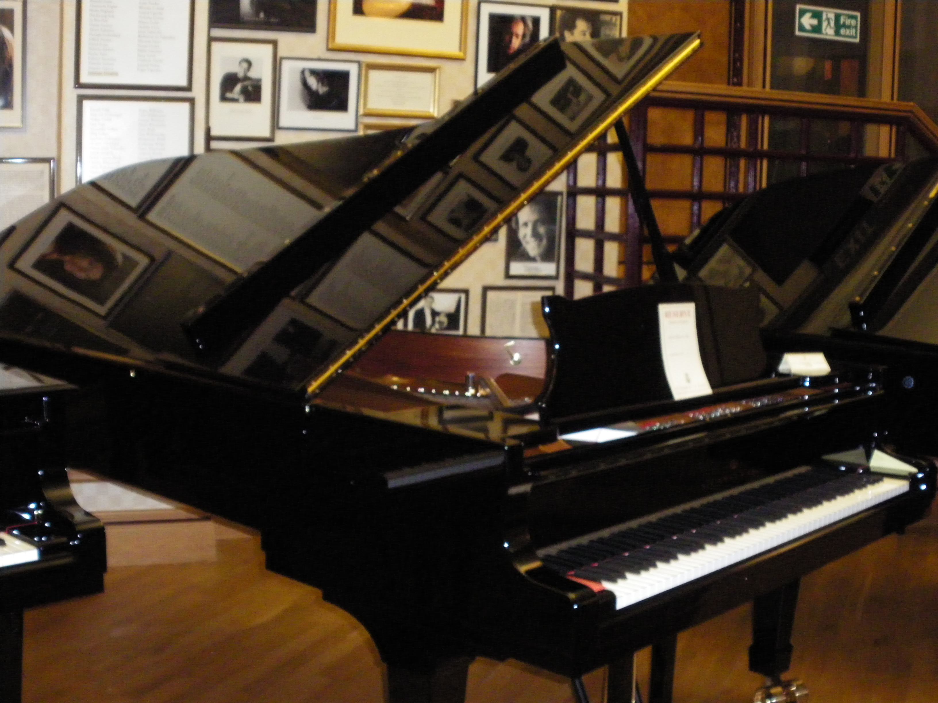 Steinway concert grand piano, model D-274